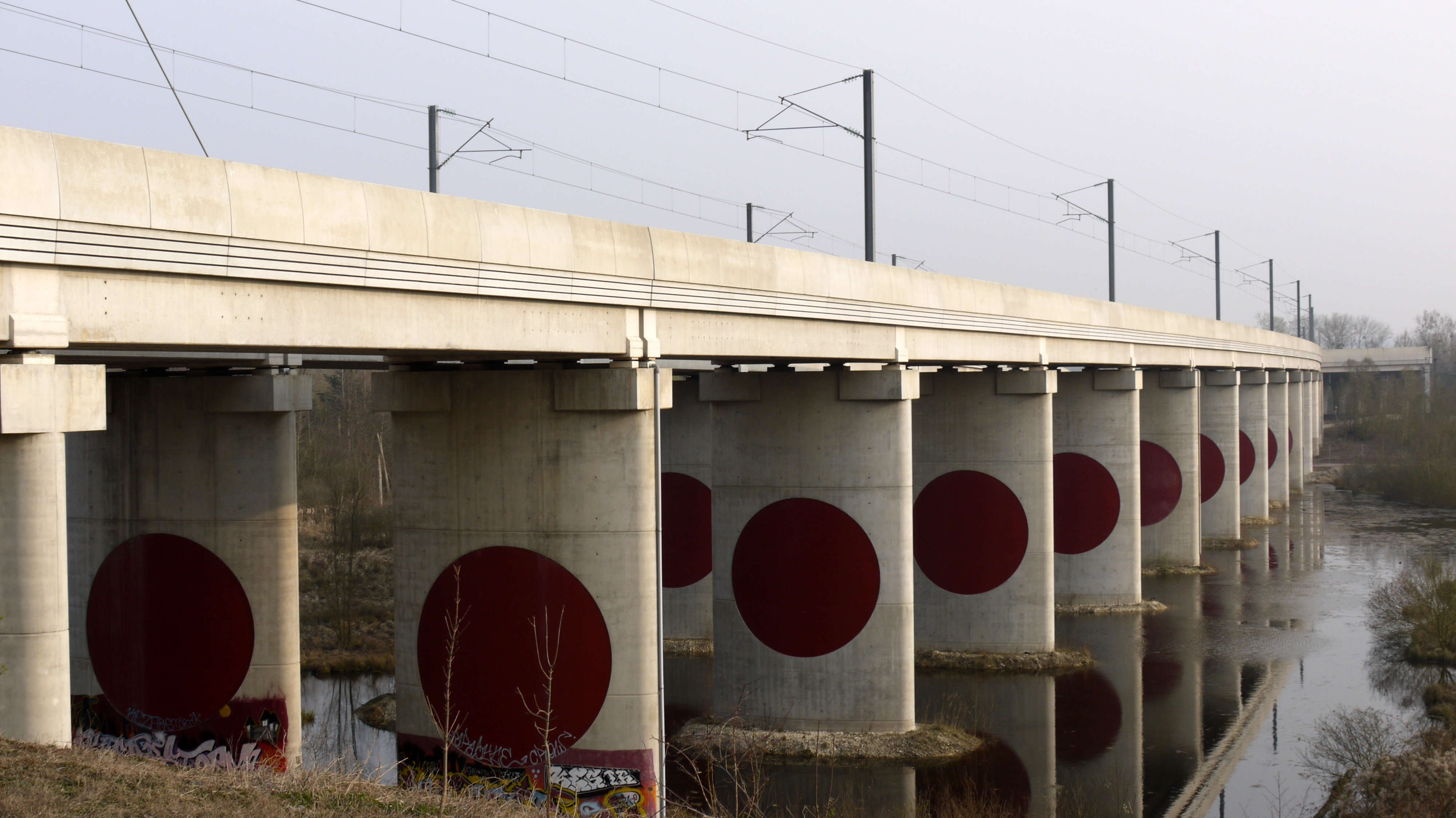 LGV Interconnexion Est near Fresnes sur Marne